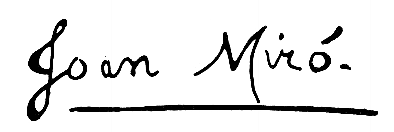 This signature is believed to be ineligible for copyright and therefore in the public domain because it falls below the required level of originality for copyright protection both in the United States and in the source country (if different). In this case, the source country (e.g. the country of nationality of the signatory) is believed to be ***Tag invalid. You must provide the source country as a parameter.***. Note that this tag cannot be used on all signatures, as not all signatures are copyright-free. See Commons:When to use the PD-signature tag for an explanation of when the tag may be used.